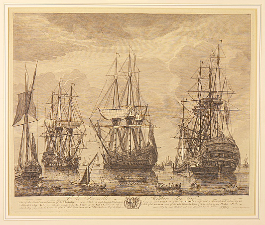 Caption: To the Honourable Wellbore Ellis Esq. One of the Lord Commissioners of the Admiralty.. This plate is most humbly dedicated to, being an exact stern view of the Glorioso, a Spanish, man of war taken by his Majesty's ship Rufsel (Russell). In the middle is the head view of the Jason, and on the left is that of the Gloire; two of the six French ships of war, taken by the British fleet. (on the 3rd May 1747) under the command of the Rt. Hon. Lord Anson and Sir Peter Warren Kt. of the Bath, &c. By his most obedient and most Devoted humble servant R. Short. J. Boydell Excudit. Engraving depicting the capture of the Spanish vessel the “Glorioso”. Published as part of a larger series that celebrated British naval victories, by James Mynde, after Richard Short. Copper engraved plate (each 58 x 73.5 cm), uncoloured, mounted on cardboard. Image lacks definition to confirm HMS Russell is on the right.